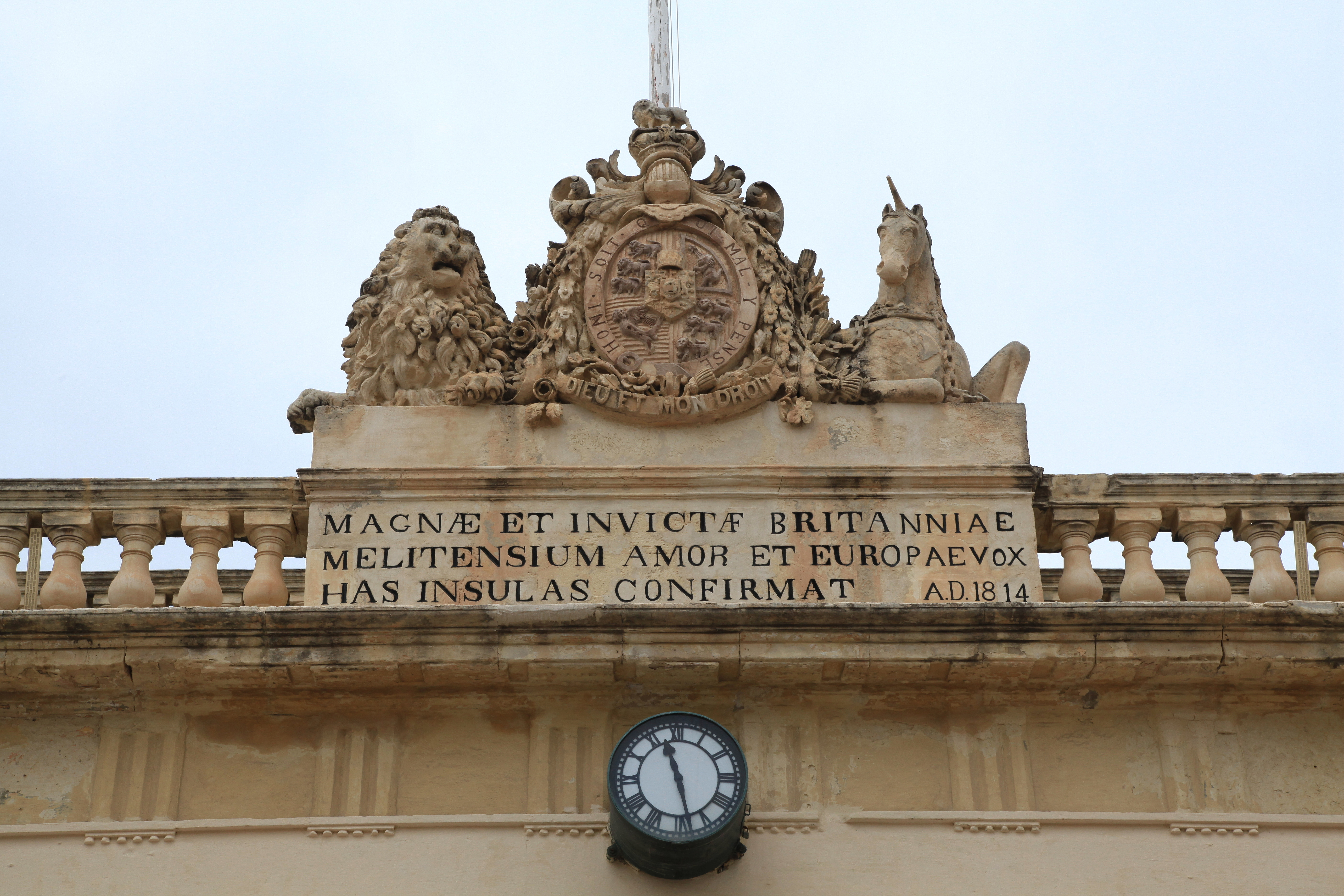 Office of the Attorney General at Misraħ San Ġorġ, Triq ir-Repubblika in Valletta, Malta